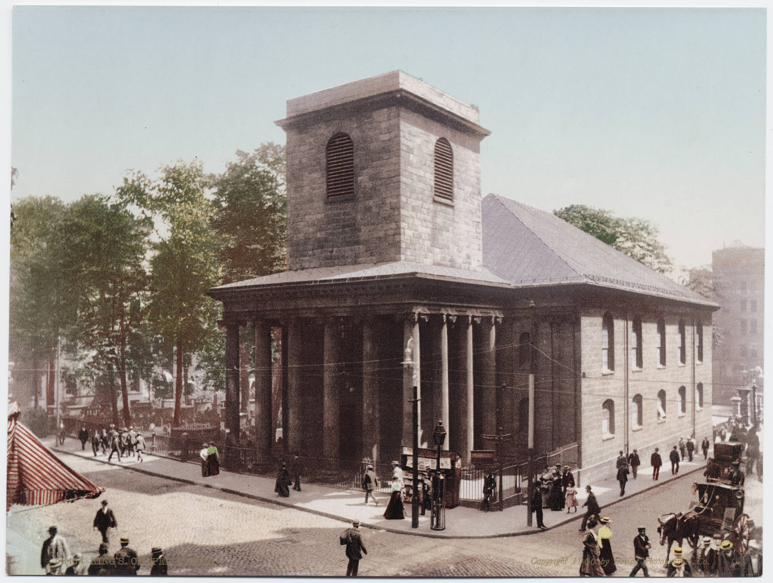 A photochrom postcard published by the Detroit Photographic Company.